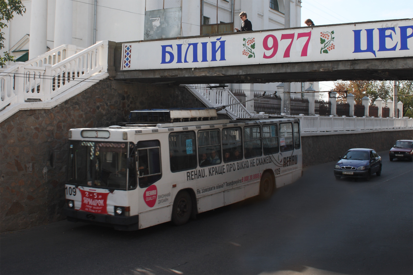 YuMZ-T2 Trolleybus in Bila Tserkva, Ukraine